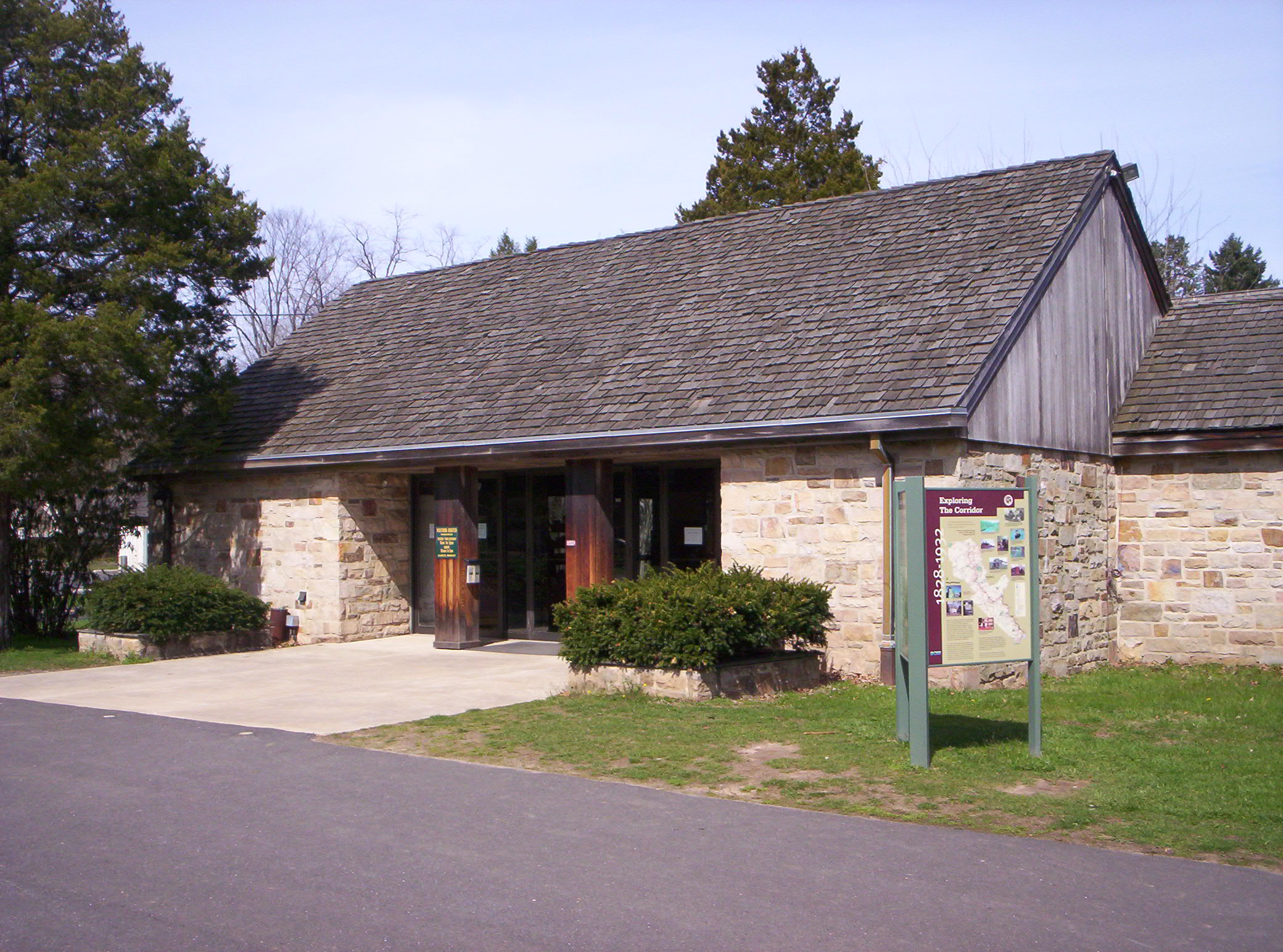 Washington Crossing Park Visitor Center